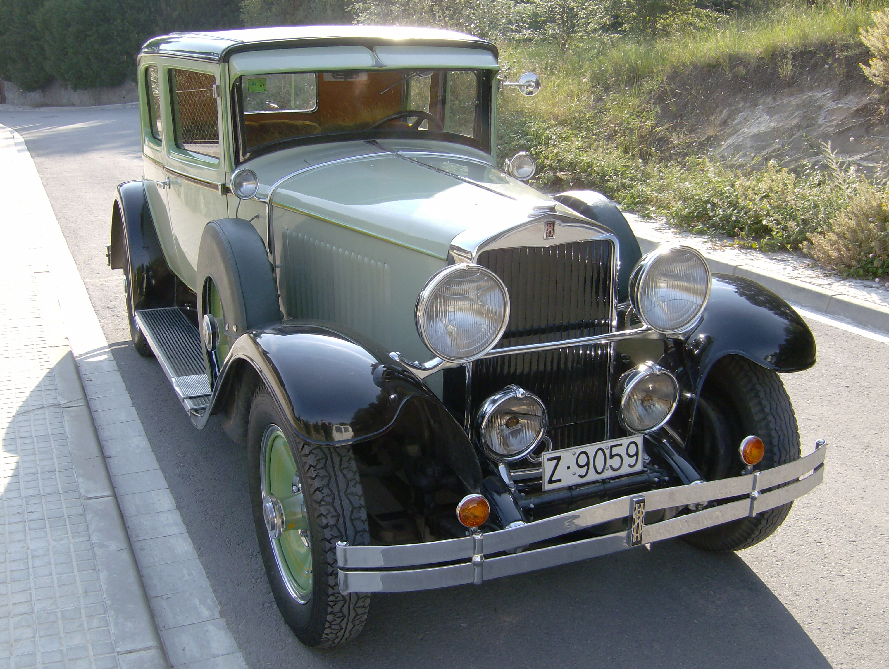 Hupmobile Model M Opera Coupe 1929 model. 8 cylinder from Barcelona. (June 2007)